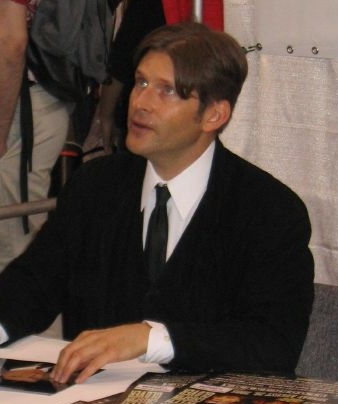 American actor Crispin Glover at the 2005 Canadian National Expo.